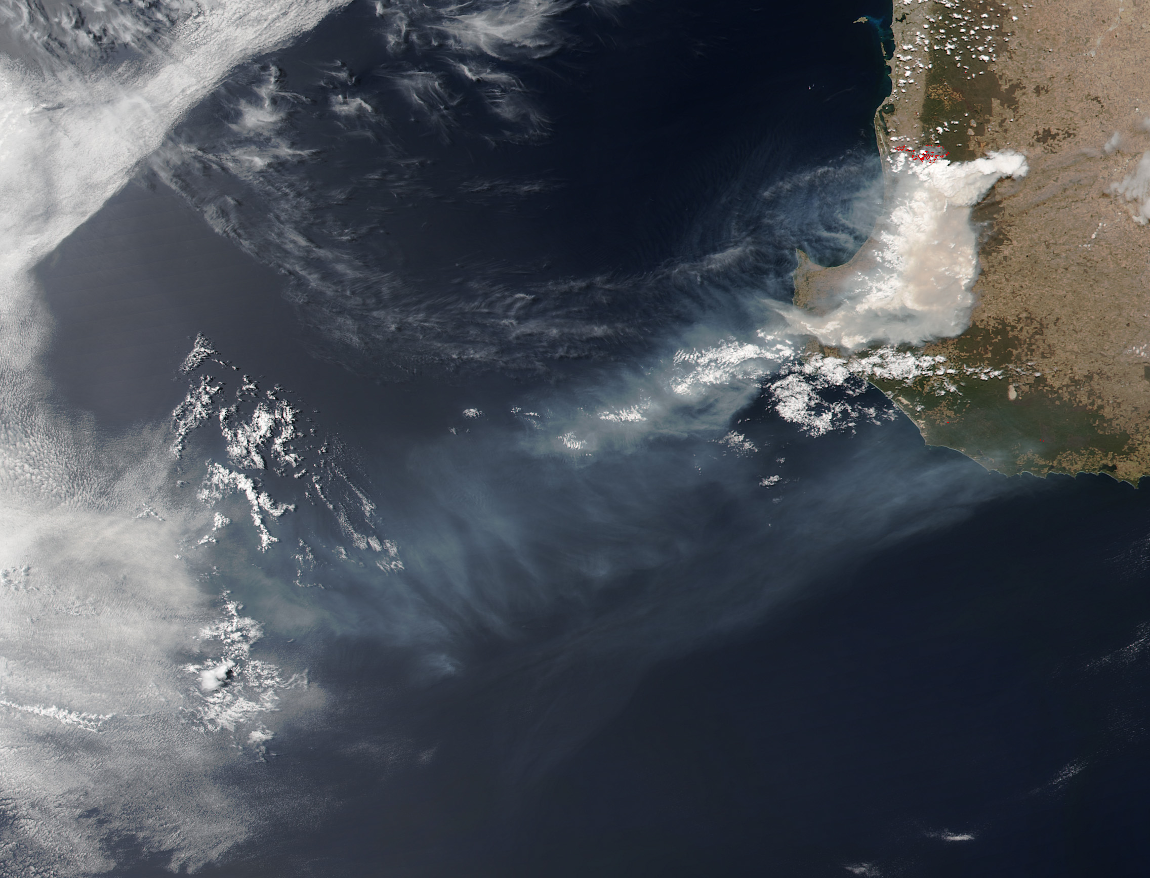 On January 7, 2016, the Visible Infrared Imaging Radiometer Suite (VIIRS) on the Suomi NPP satellite acquired this image of the fire. Red outlines indicate hot spots where VIIRS detected warm surface temperatures associated with the fire. Thick plumes of smoke, visible above a layer of clouds, stream south. The fire burned so vigorously that it fueled its own weather by creating a pyrocumulus—or “fire cloud.” Pyrocumulus clouds are similar to cumulus, but the heat that forces the air to rise (which leads to cooling and condensation of water vapor) comes from fire instead of the sun-warmed ground.